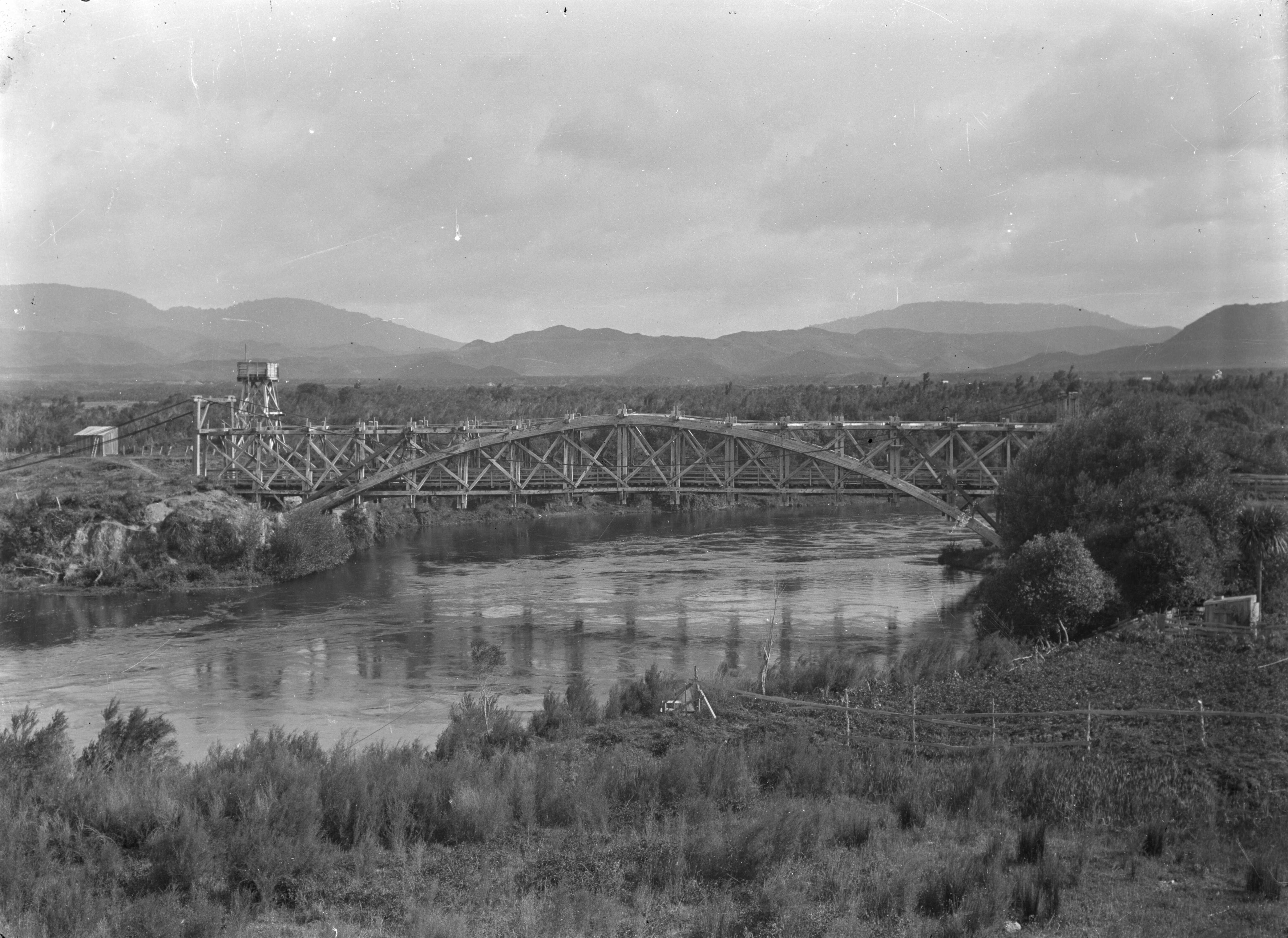 Longest single wooden span bridge in New Zealand, carrying the Taupo Totara Timber Company line over the Waikato River at Ongaroto. Photograph taken in February 1923 by Albert Percy Godber.